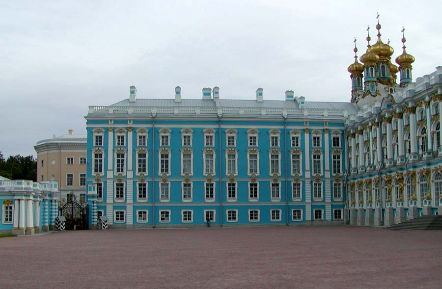 Pushkin (Russia), Catherine Palace